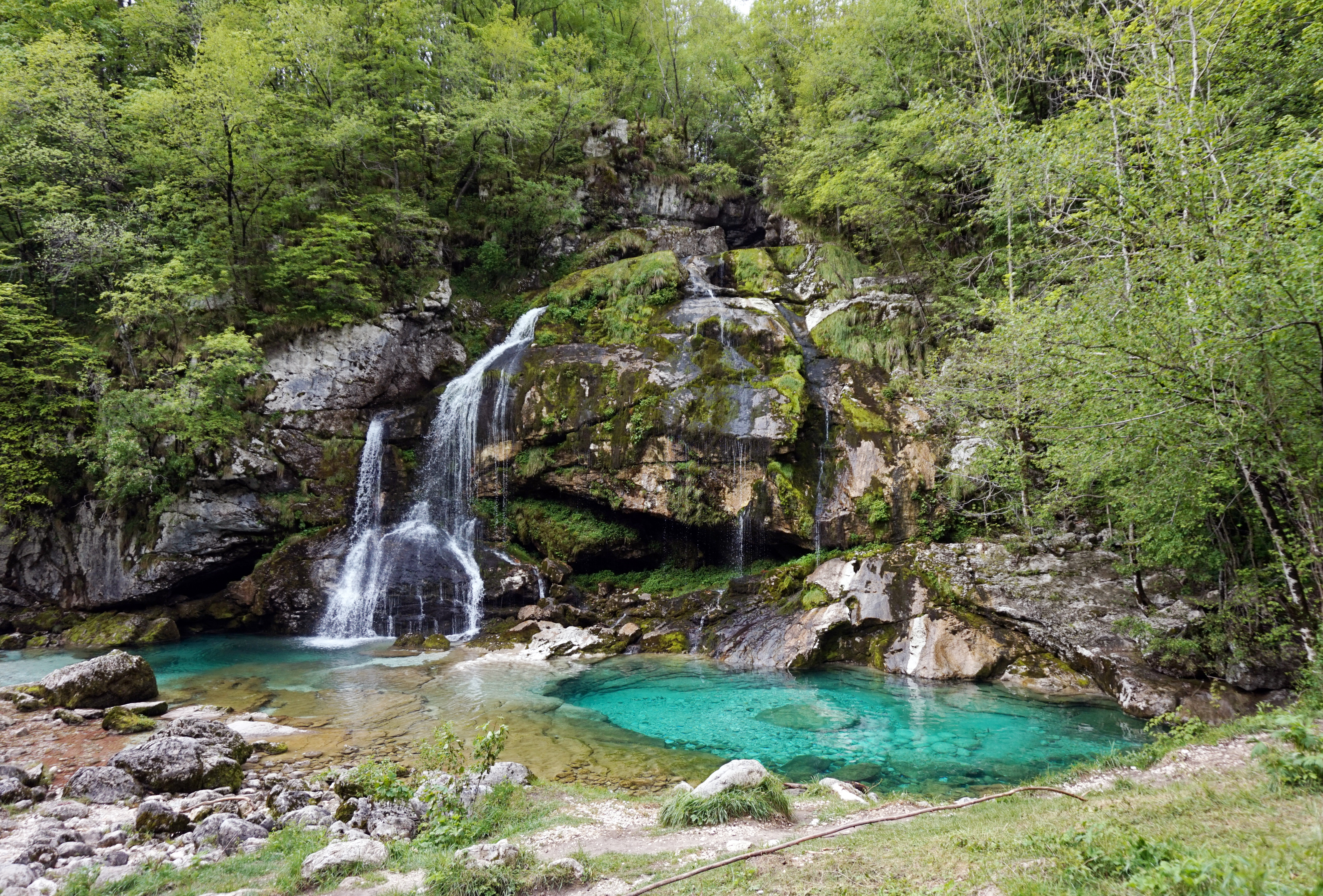 Virje waterfall in Bovec, Slovenia.This photograph was taken with a Sony ILCE-5000